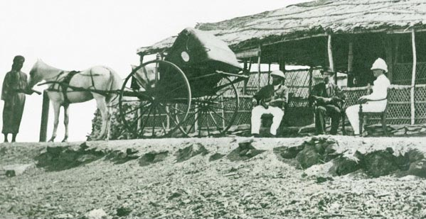 British officer with friends and servant at his makeshift house in Aden in 1870. Aden developed quickly after the Suez Canal opened for traffic in 1869.